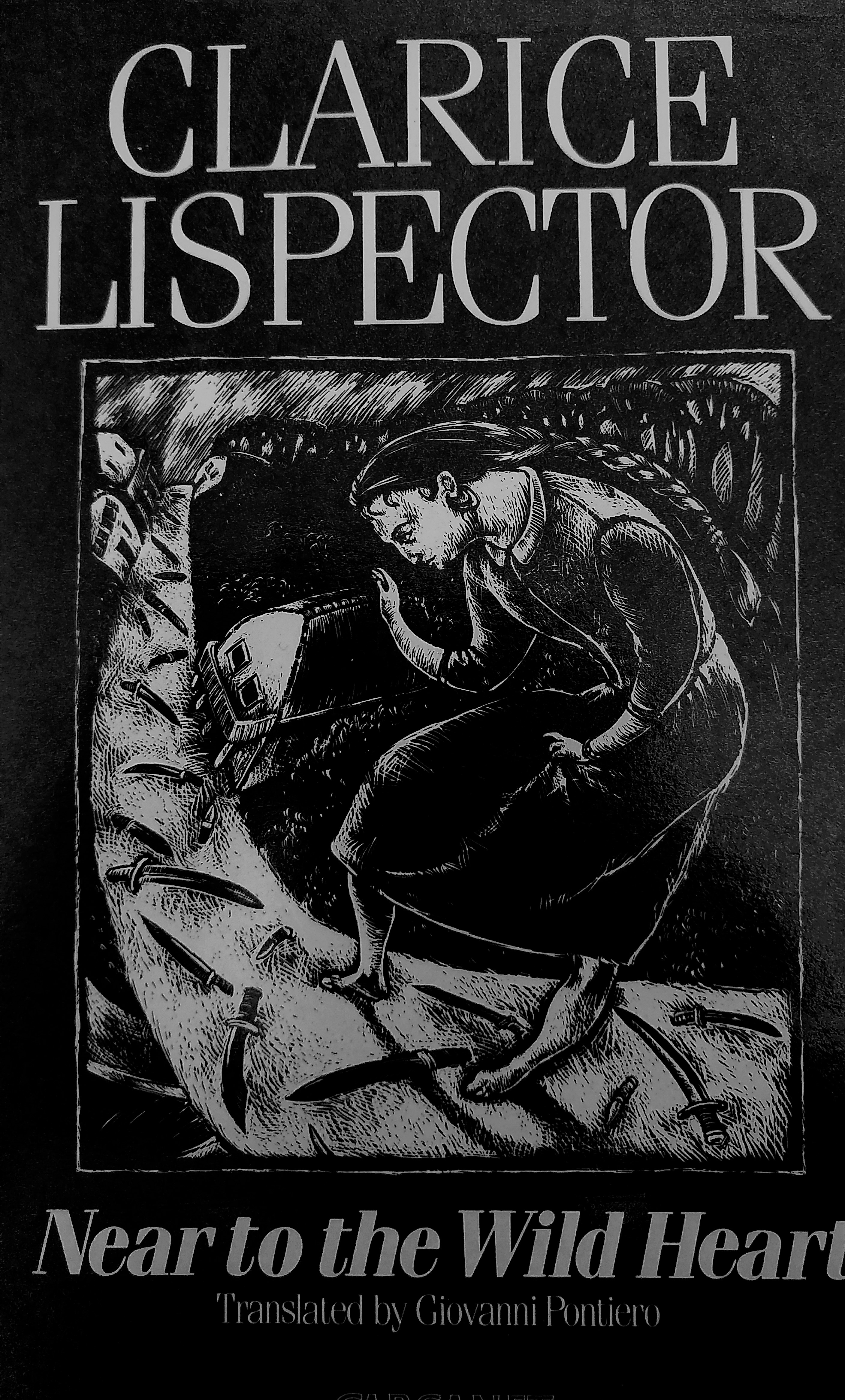 Cover by Julia Robinson Translation by Giovanni Pontiero